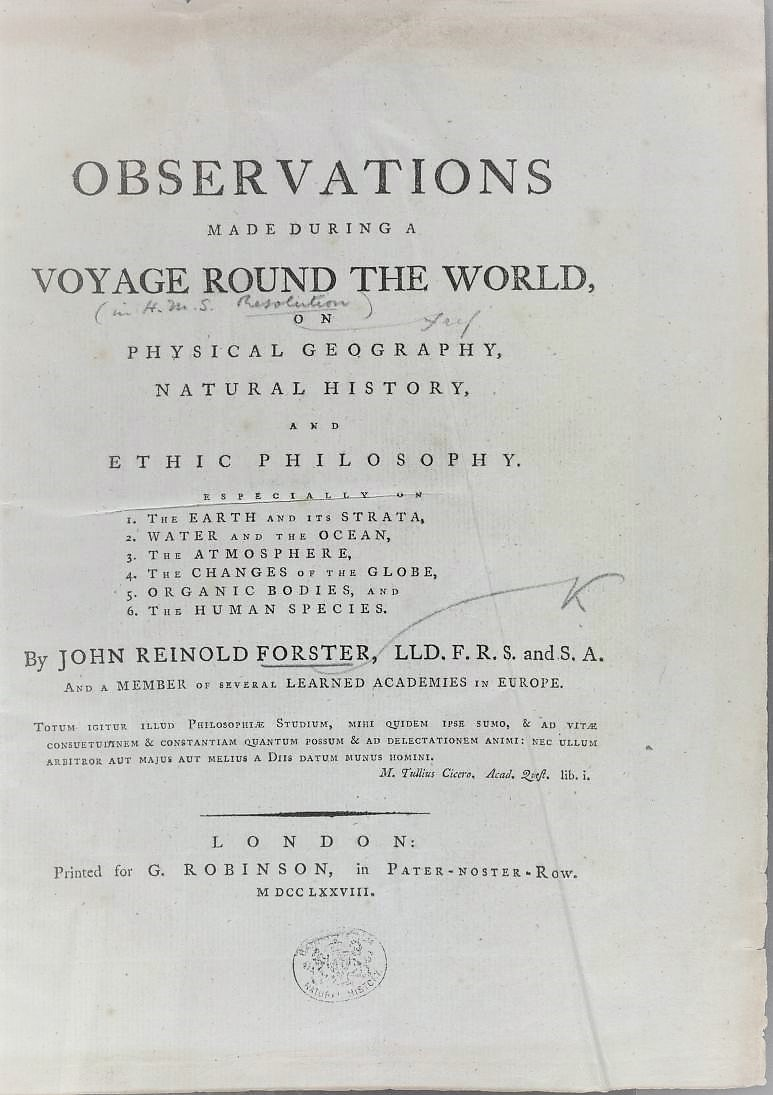 Observations made during a voyage round the world [in H.M.S. Resolution] on physical geography, natural history, and ethic philosophy, especially on.